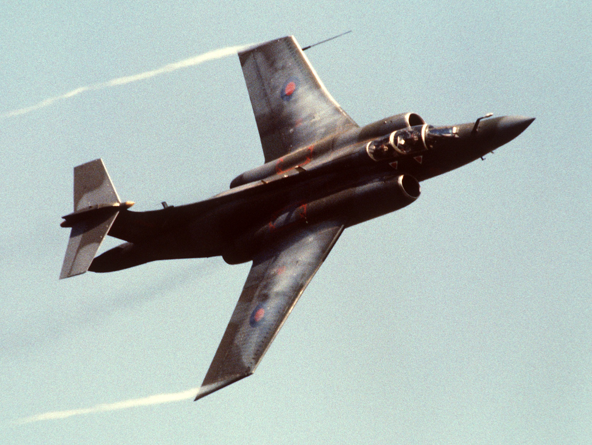 A Royal Air Force Hawker Siddeley Buccaneer S.2B aircraft in flight during "Air Fete '88", a NATO aircraft display hosted by the U.S. Air Force 513th Airborne Command and Control Wing at RAF Mildenhall, Suffolk (UK), on 28 May 1988.